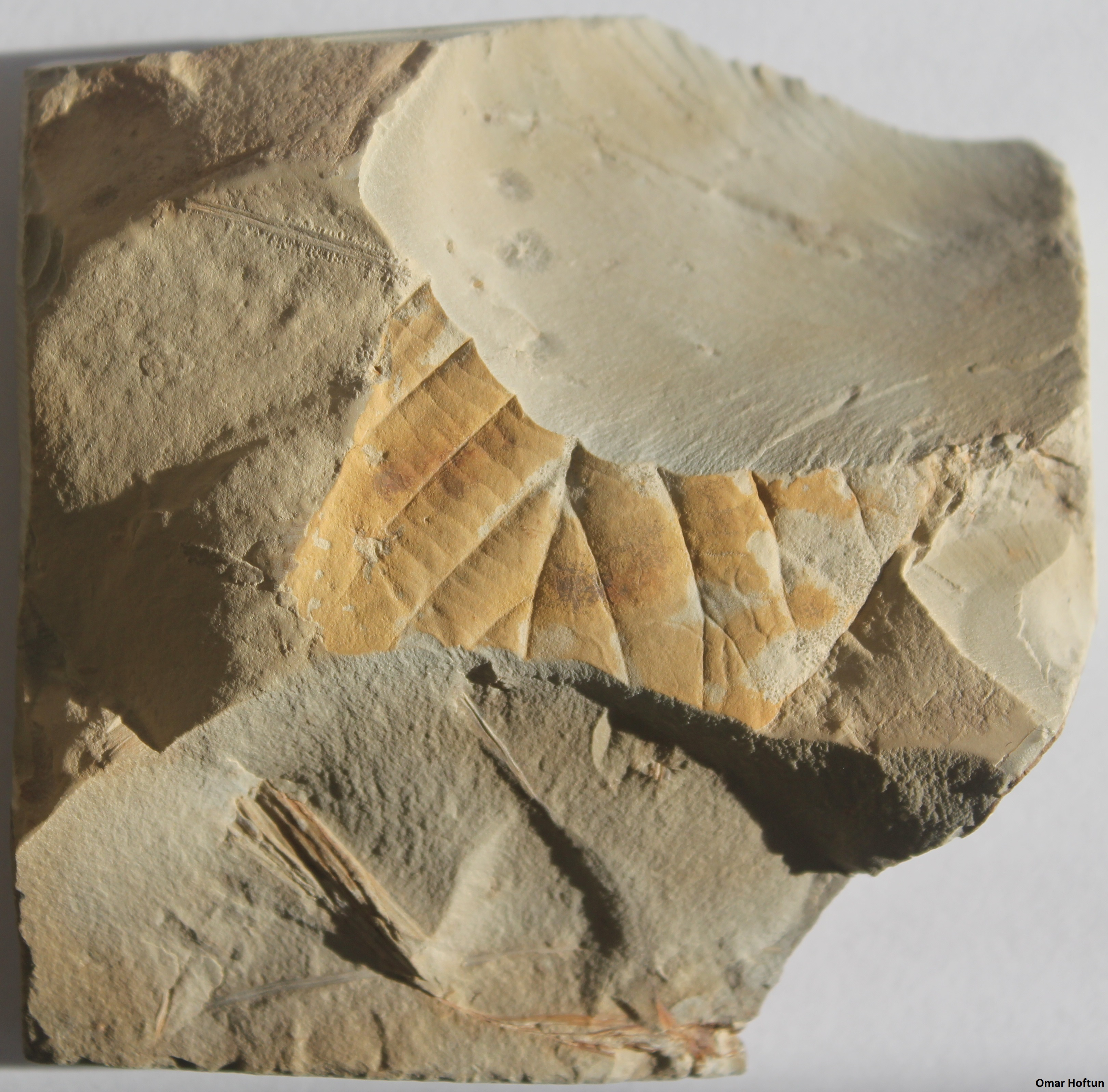 Impression of 65 million years old partial fossil leaf of Beringiaphyllum cupanoides and fragments of Sparganium antiquum from Fort Union Formation, Glendive Montana, USA.